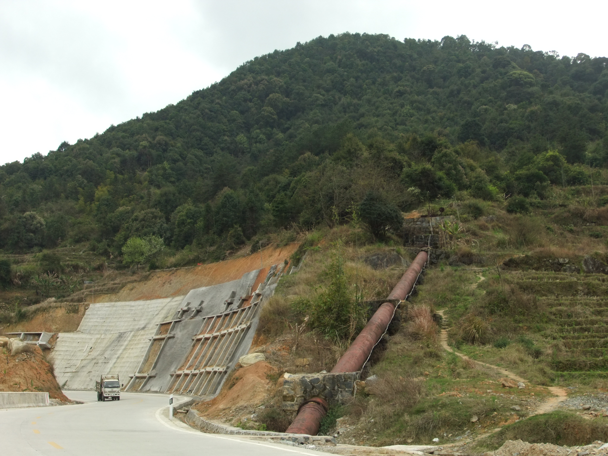 Around Yangduo Village (洋多村, Yangduocun), Hukeng Town, as seen from Fujian Provincial Hwy 309 (S309). This is one of the tulou villages in the Nanxi Valley, located south of Xipian Village (Xipiancun) and north of Xinnan Village (Xinnancun - New South Village). It can be viewed as part of the "Tulou Great Wall" of the Nanxi Valley. There is a hydro power plant in the village.